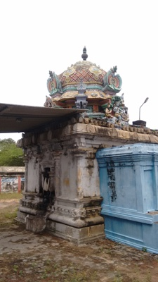 Panaiyur soundaresvarar temple திருப்பனையூர் சௌந்தரேஸ்வரர் கோயில்